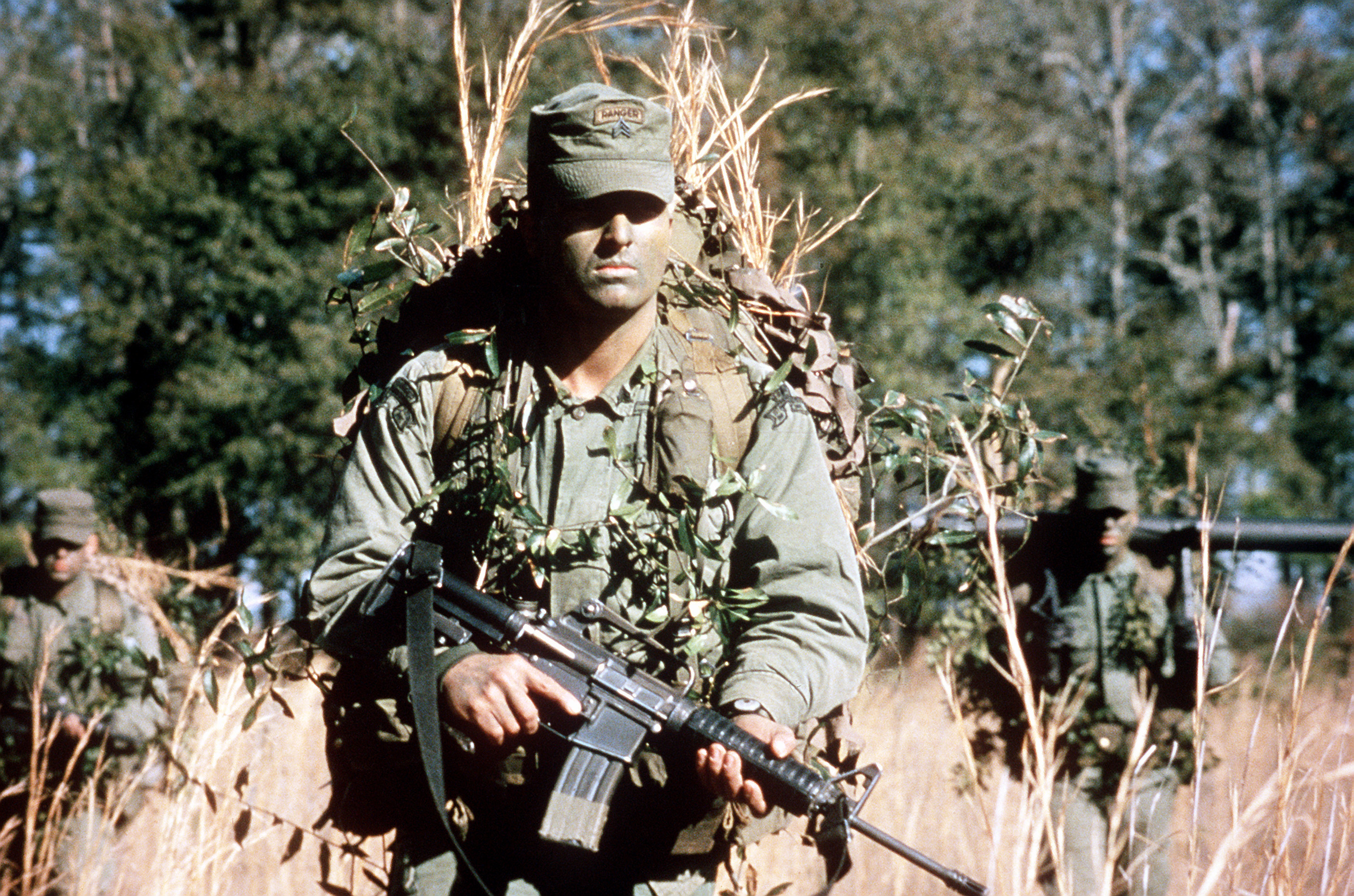 Three U.S. Army Rangers participate in a training exercise. The Ranger in the foreground is armed with an M16A1 (Model 653) carbine.